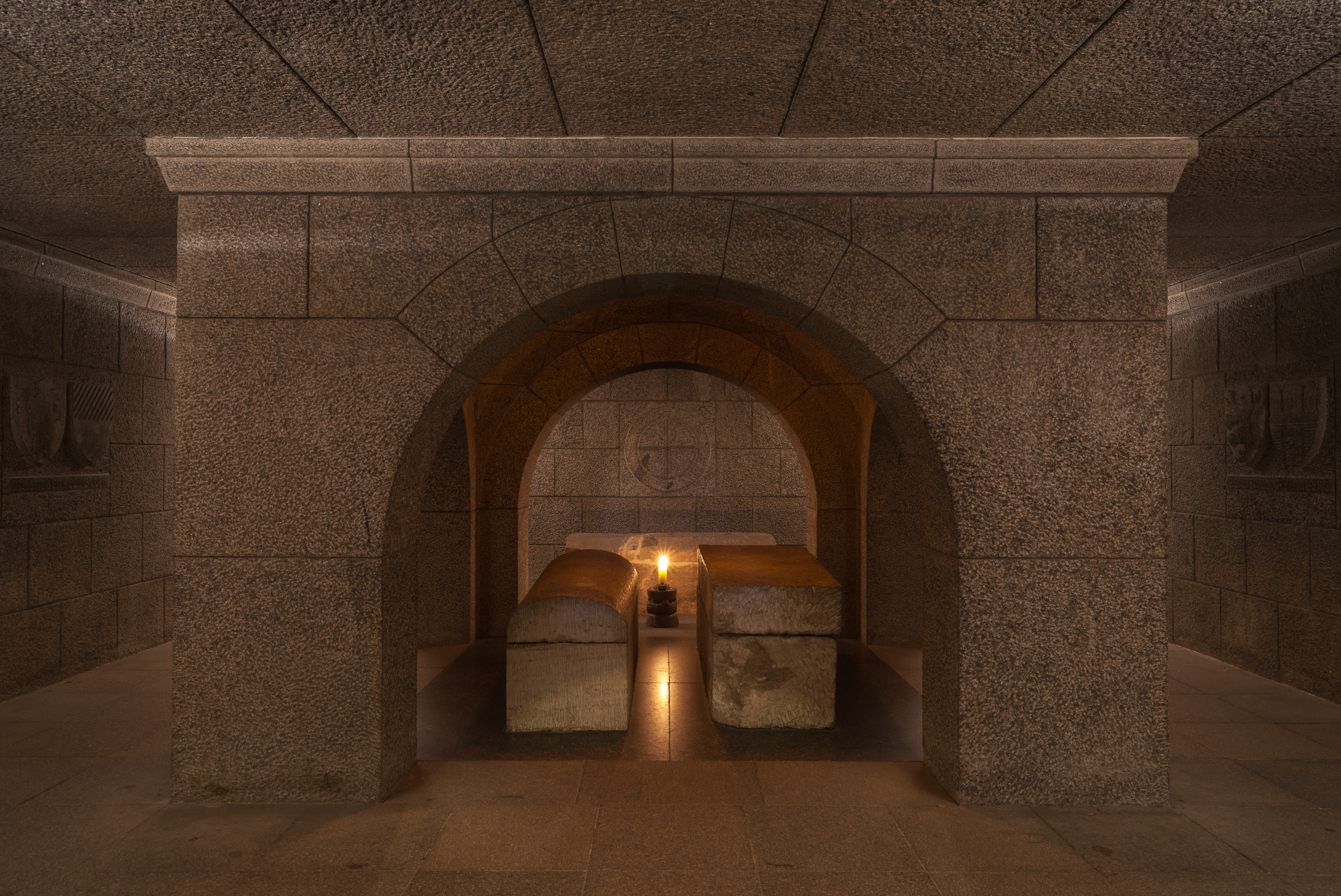 Brunswick Cathedral, Crypt of Henry the Lion. Lower Saxony/Germany.